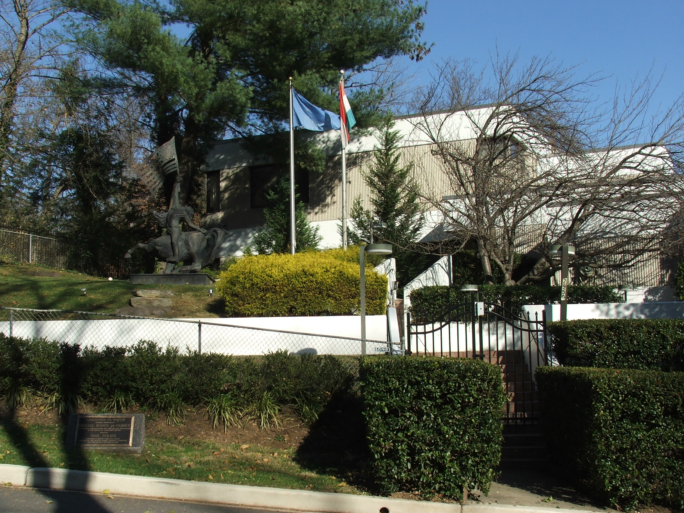 Embassy of Hungary in Washington, D.C. - United States.